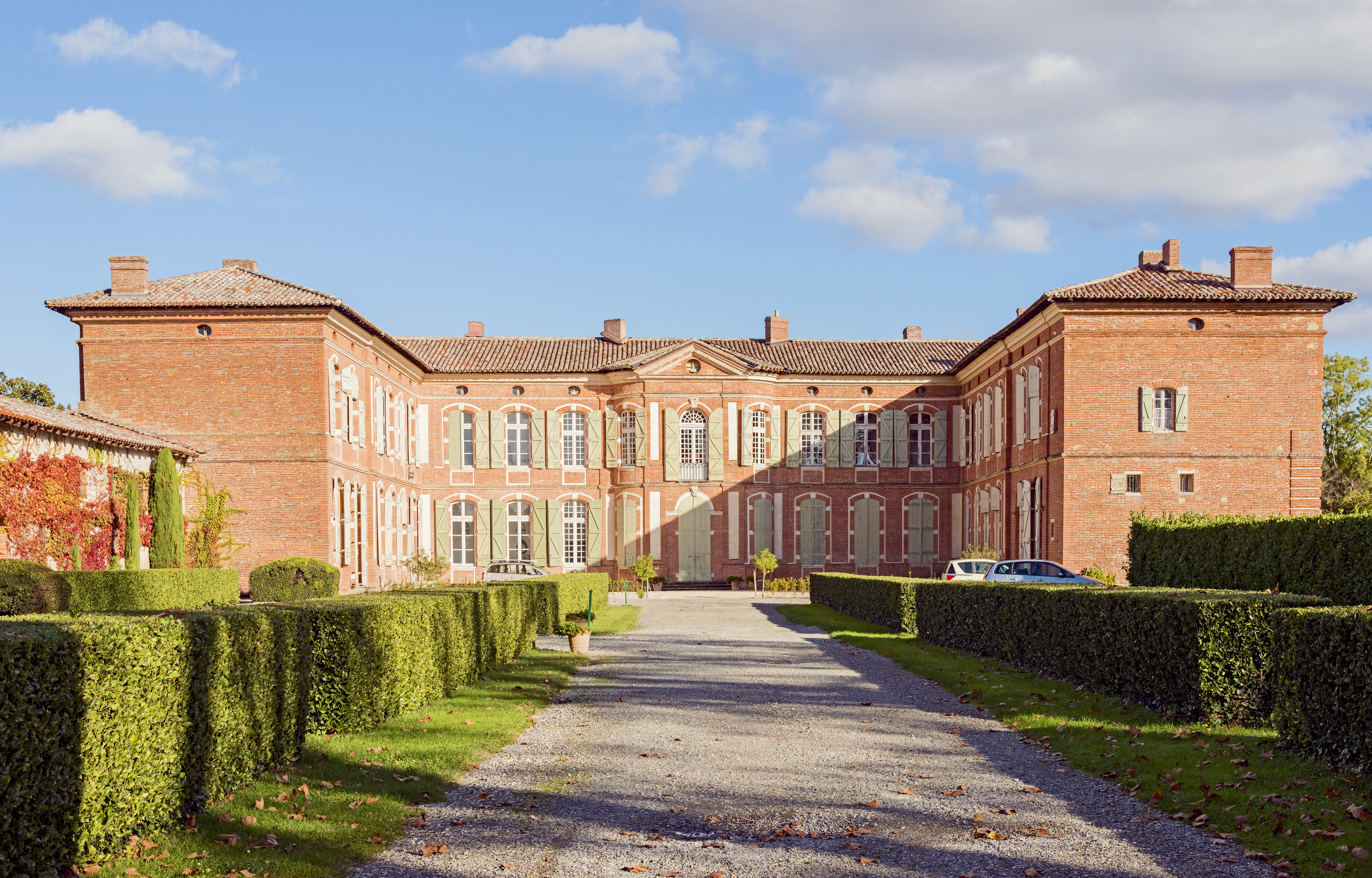 Merville Castle, Haute-Garonne France - eighteenth century